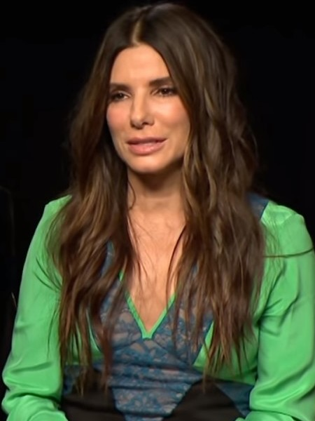 Sandra Bullock, Cate Blanchett, Sarah Paulson and Mindly Kaling reveal their tequila-fuelled on-set shenanigans, the moments that made them LOL behind the scenes